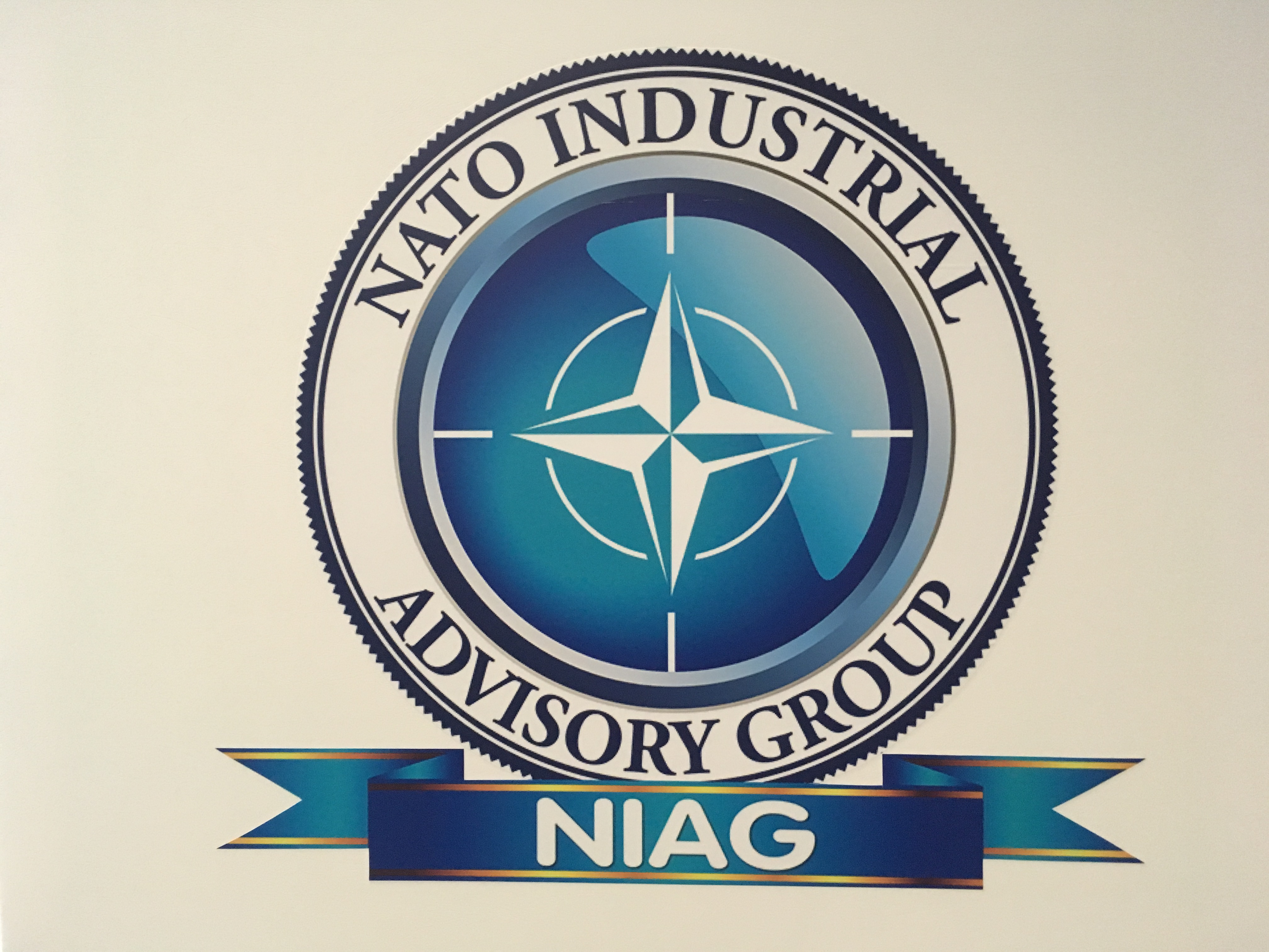 NIAG logo